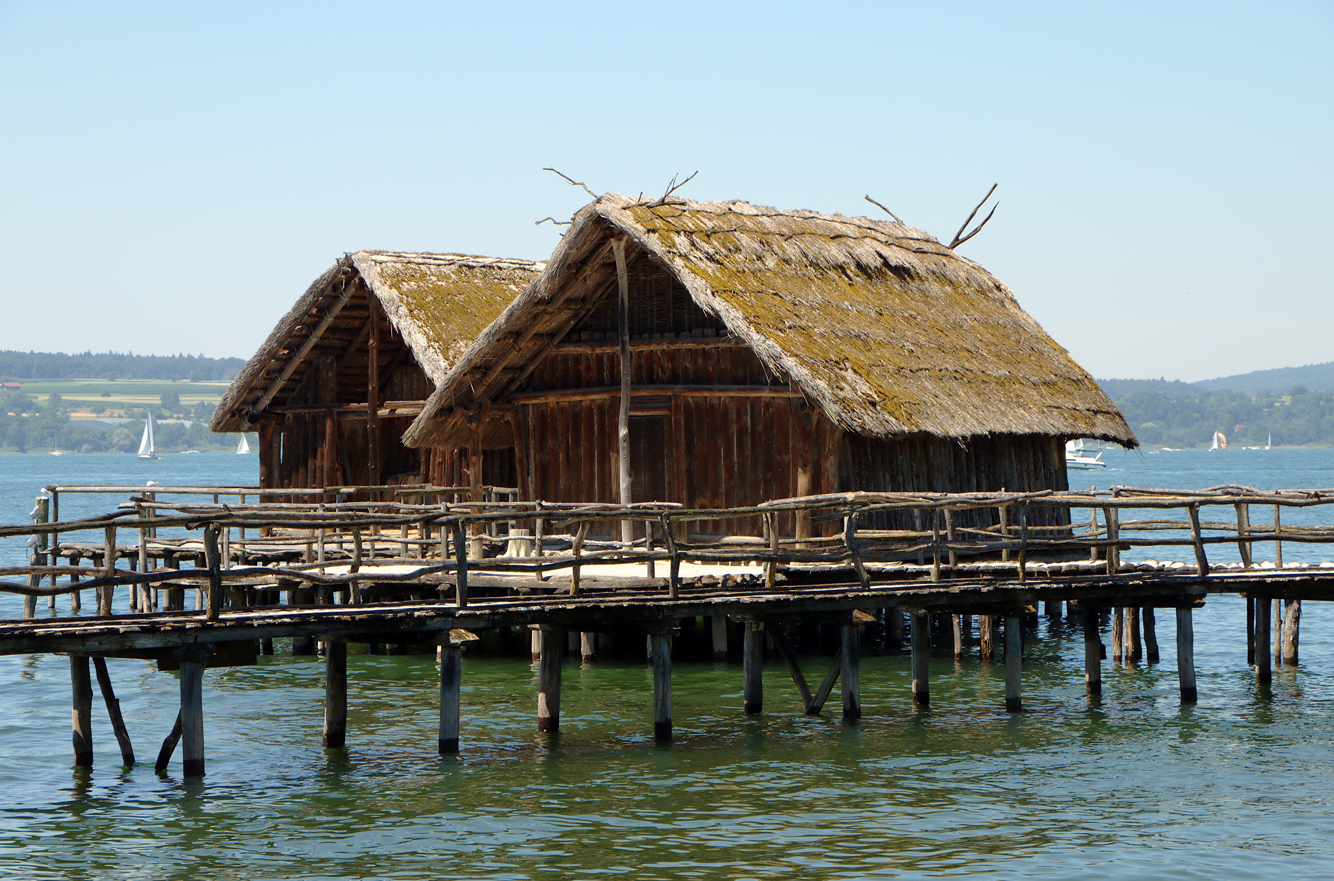 Stone Age Houses Schussenried, Pfahlbaumuseum Unteruhldingen, Uhldingen-Mühlhofen, Lake Constance, Germany